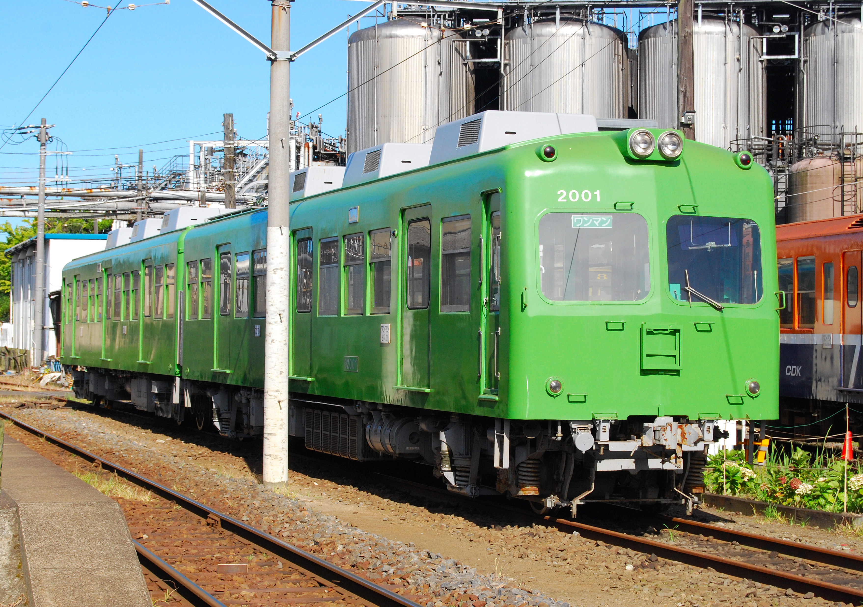 Choshi Electric Railway 2000 series 2-car EMU set 2001 at Nakanocho Depot